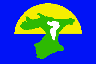 Unofficial flag of the Chatham Islands